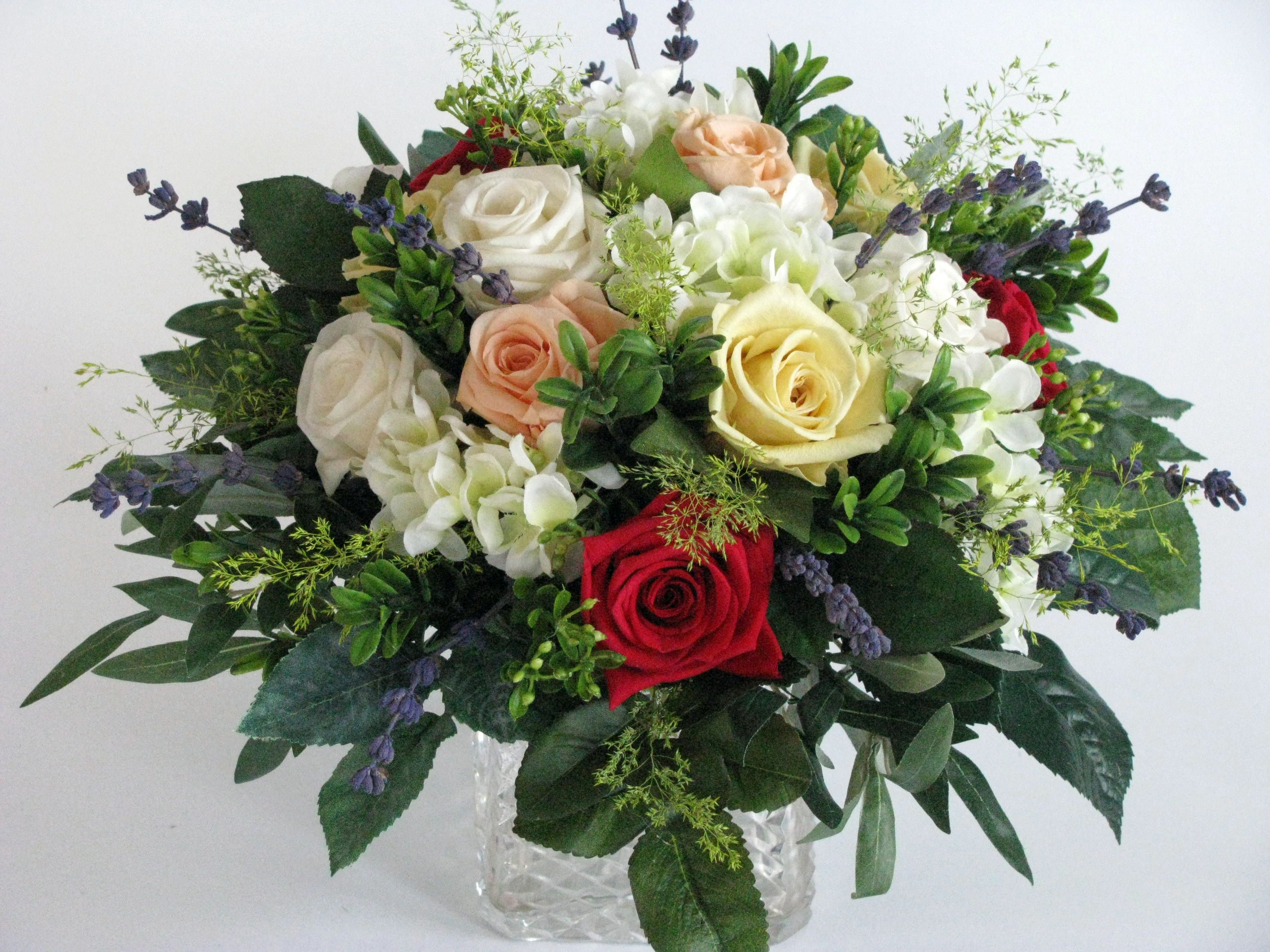 Bouquet of flowers made of silk flowers, prepared roses and prepared gras